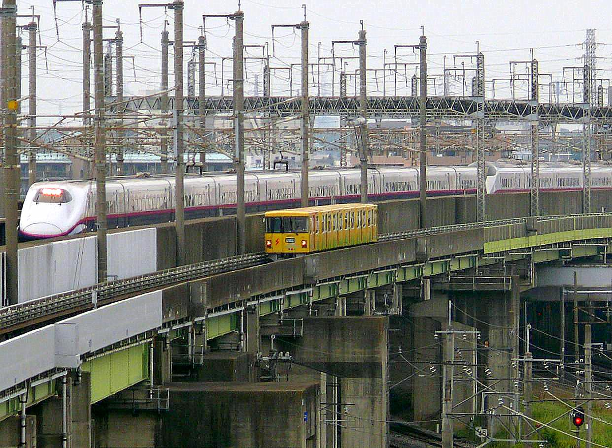 New Shuttle Ina Line（Saitama,Japan）.